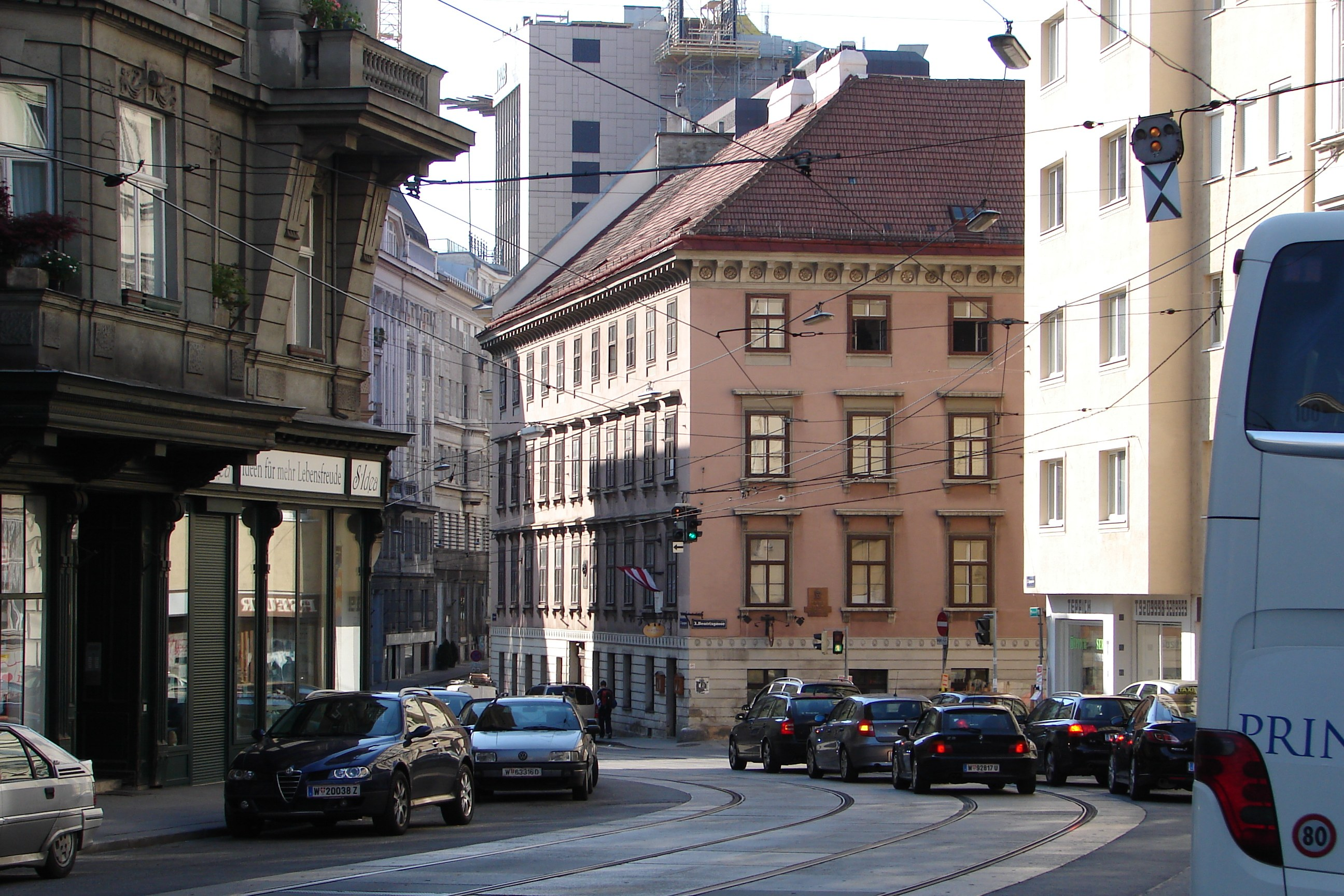 Street Ungargasse, 1030 Vienna, Austria, with view to "Beethoven-Haus" No. 5. See detailed building Image:Haus-Ungargasse-Nr5.jpg